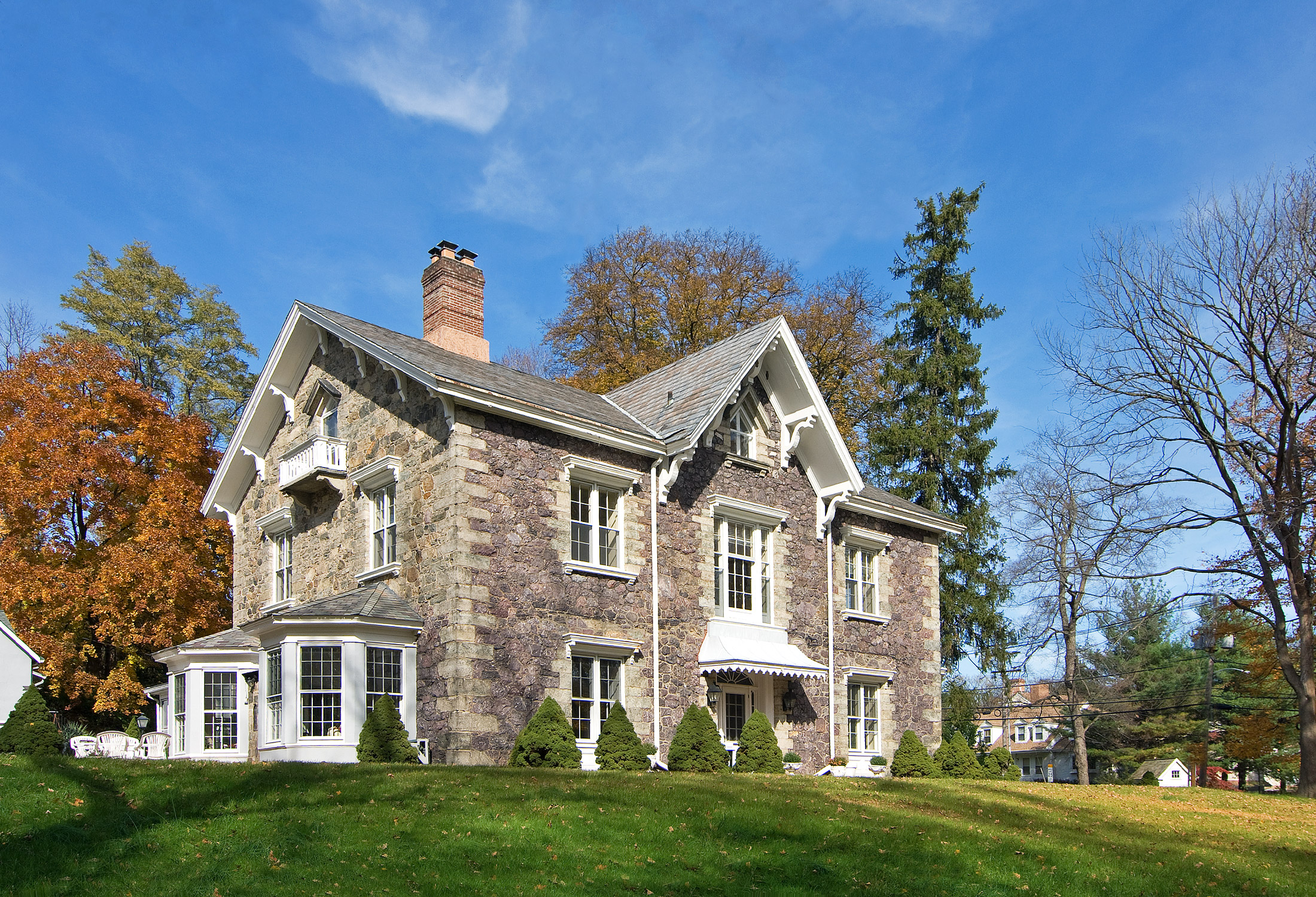 The estate of Joseph Bushnell Ames in Morristown, New Jersey, as it appears today.